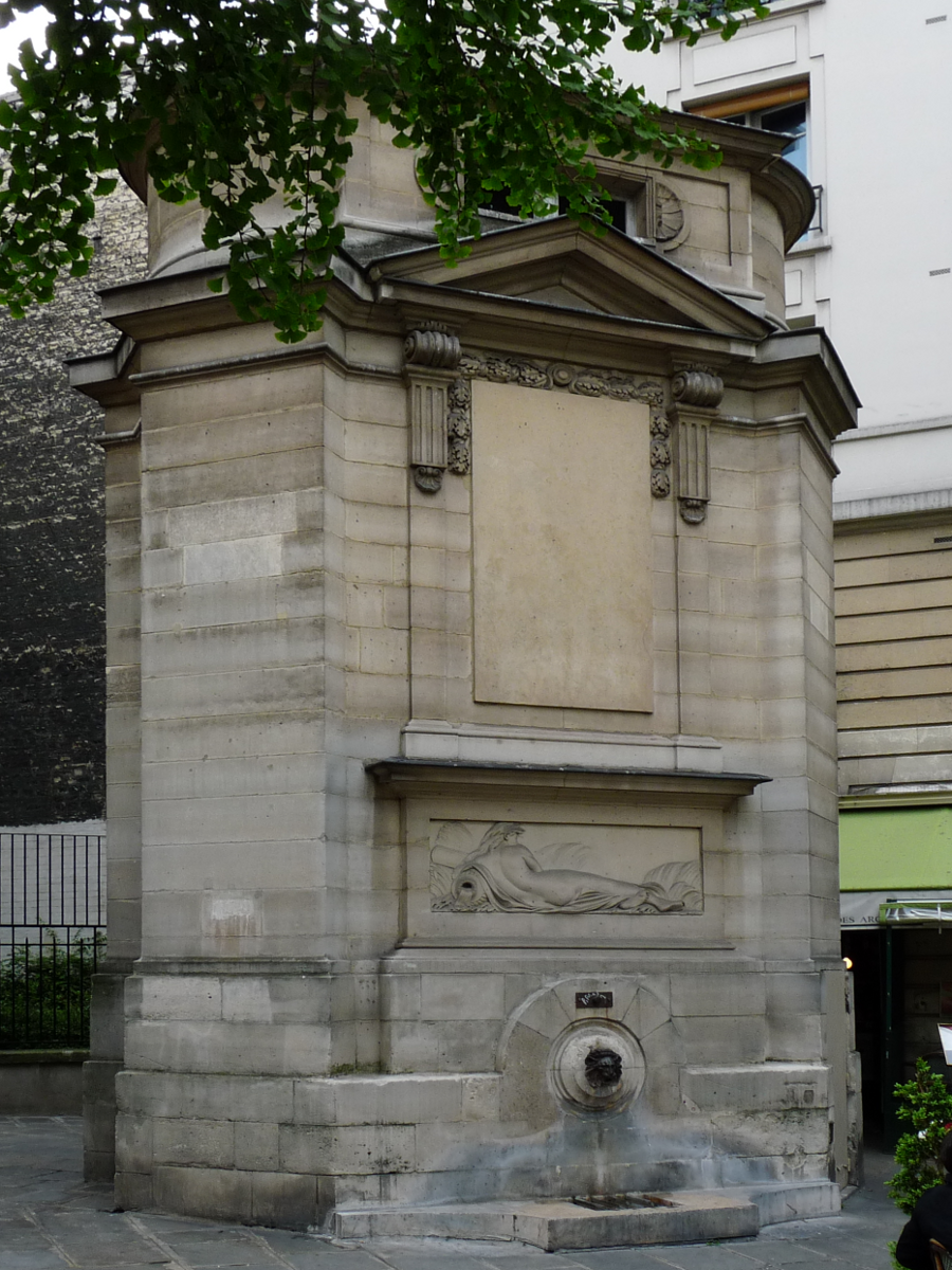 Fountain at 1, rue des Haudriettes, Paris